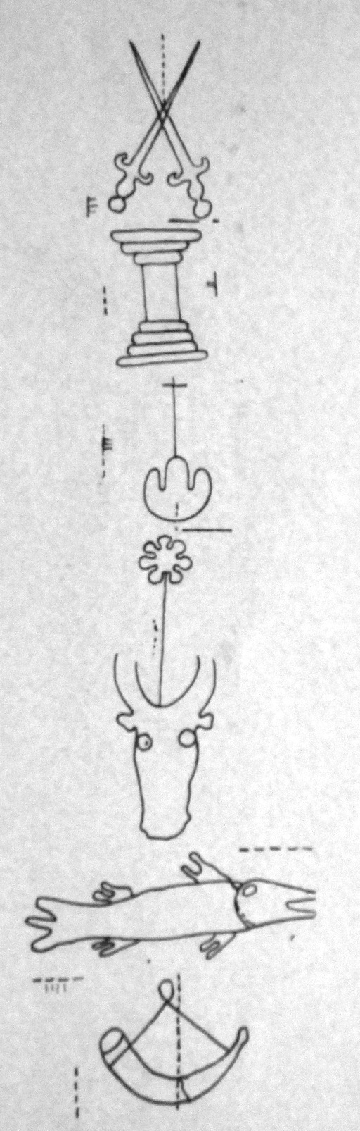 Watermarks from the 15th century Georgian manuscripts